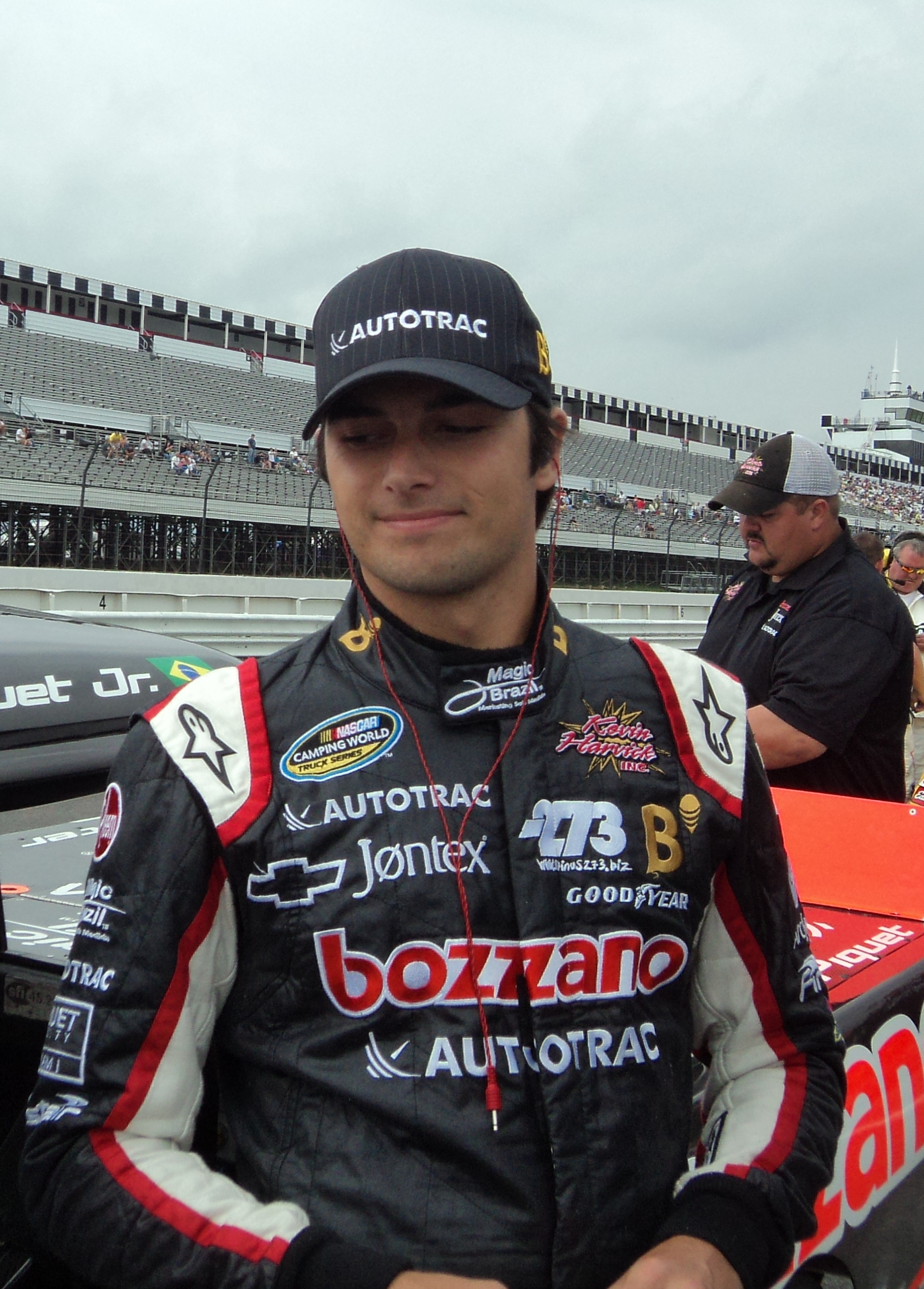 Nelson Piquet Jr, KHI driver in Pocono NASCAR Camping World Truck Series